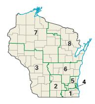 Image adapted from US fed gov't source Category:Congressional districts of Wisconsin